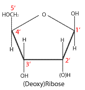 Labeled diagram of (deoxy)Ribose